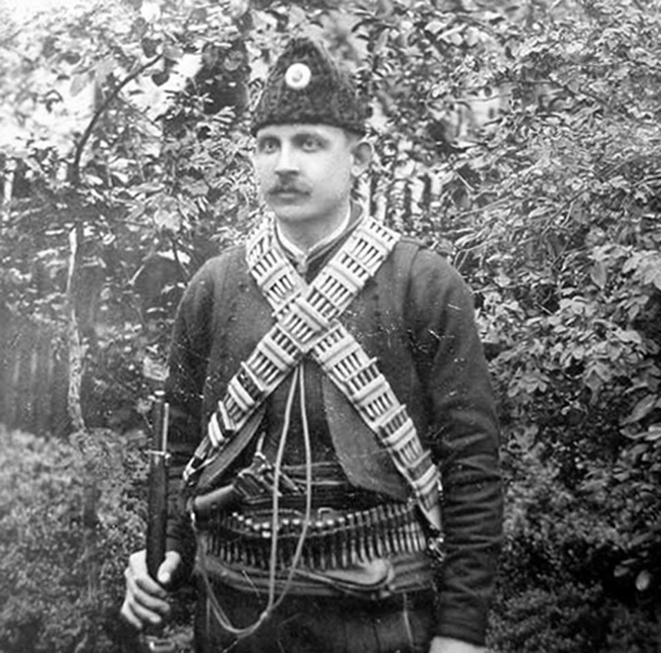 Lazar Kujundžić (1880-May 25, 1905). Photography taken in a series (see also Pavle Mladenović-Čiča)